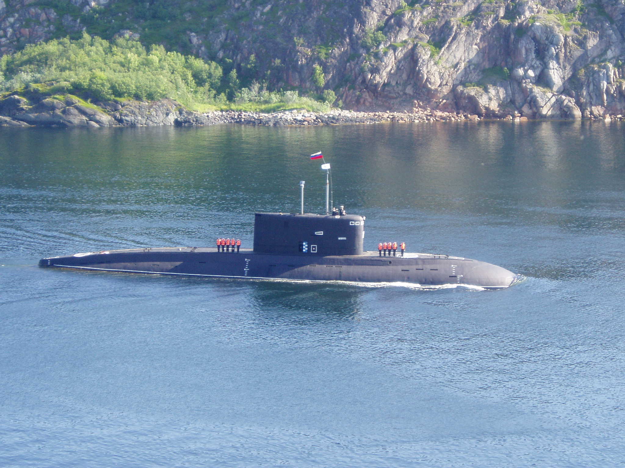 Kilo-class submarine B-402 "Vologda" (project 877) at Day of Navy in Polarny.